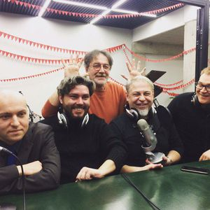 Квартет Руслана Егорова и Алексей Коган